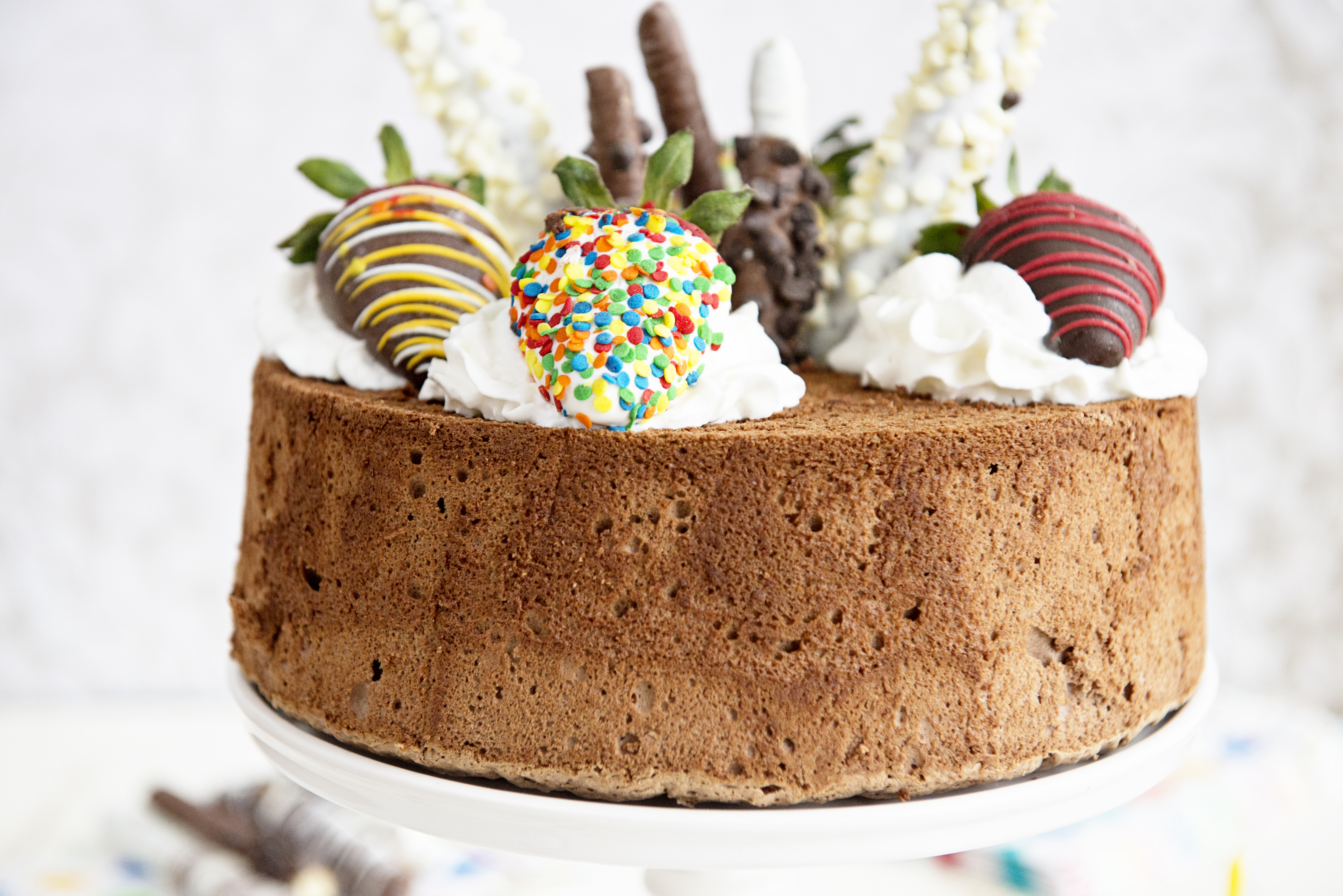 Chocolate angel food cake with various toppings